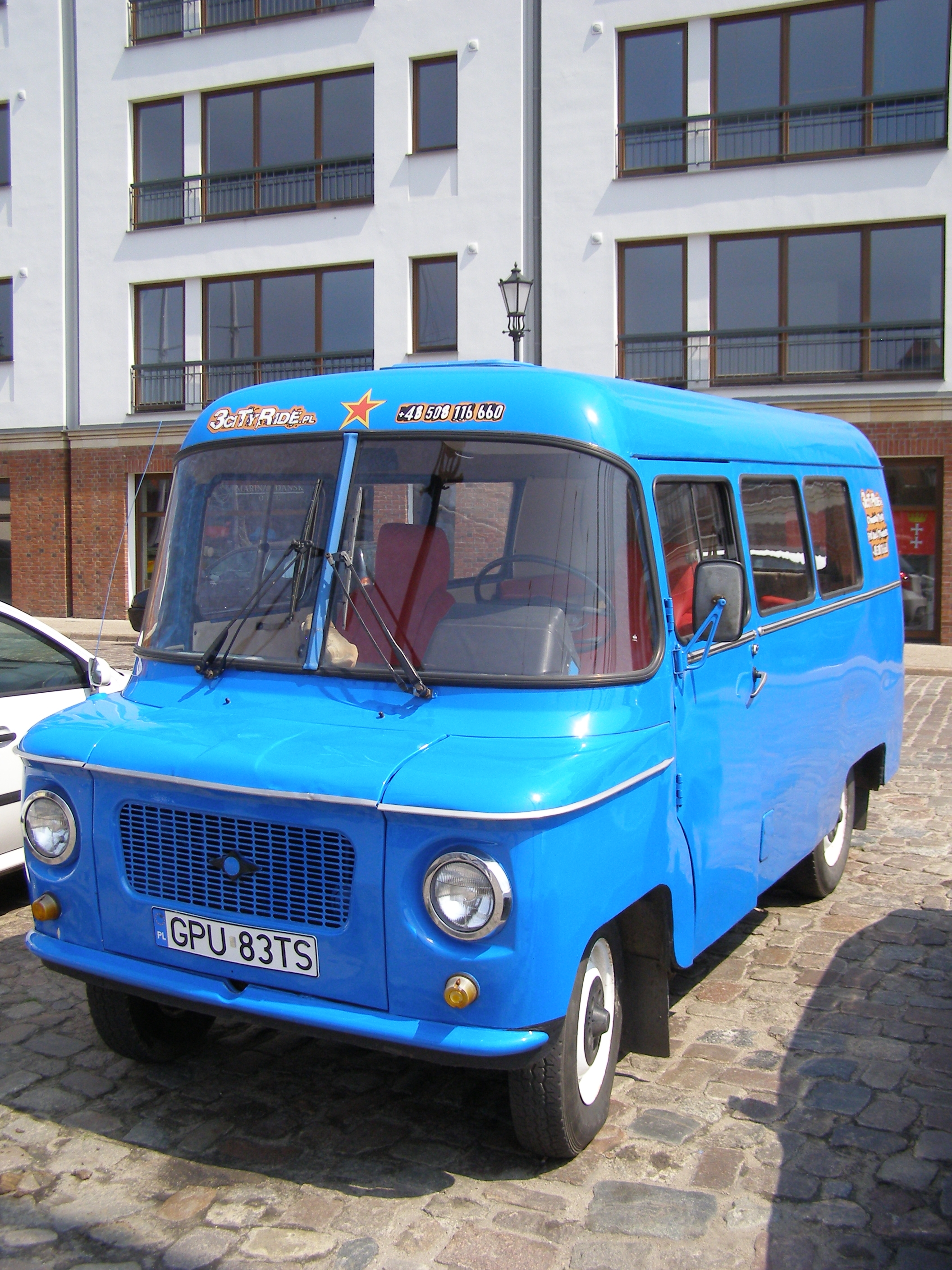 Gdańsk - Szafarnia str., Nysa 522